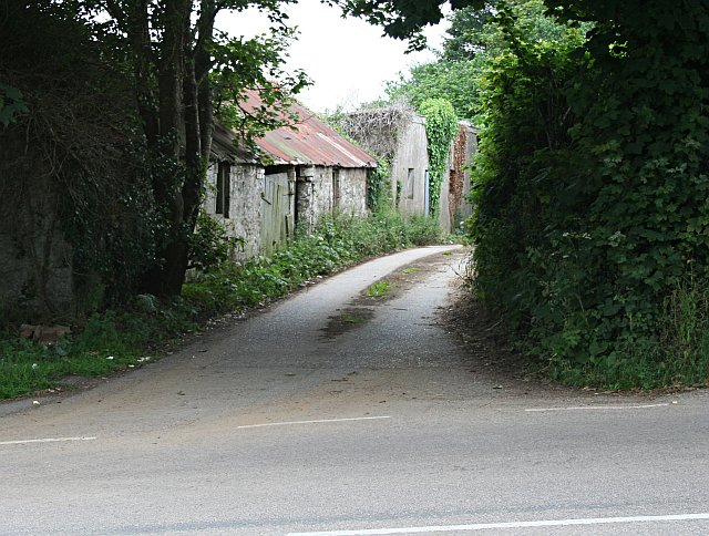 Derelict Farm Buildings near Bissom.